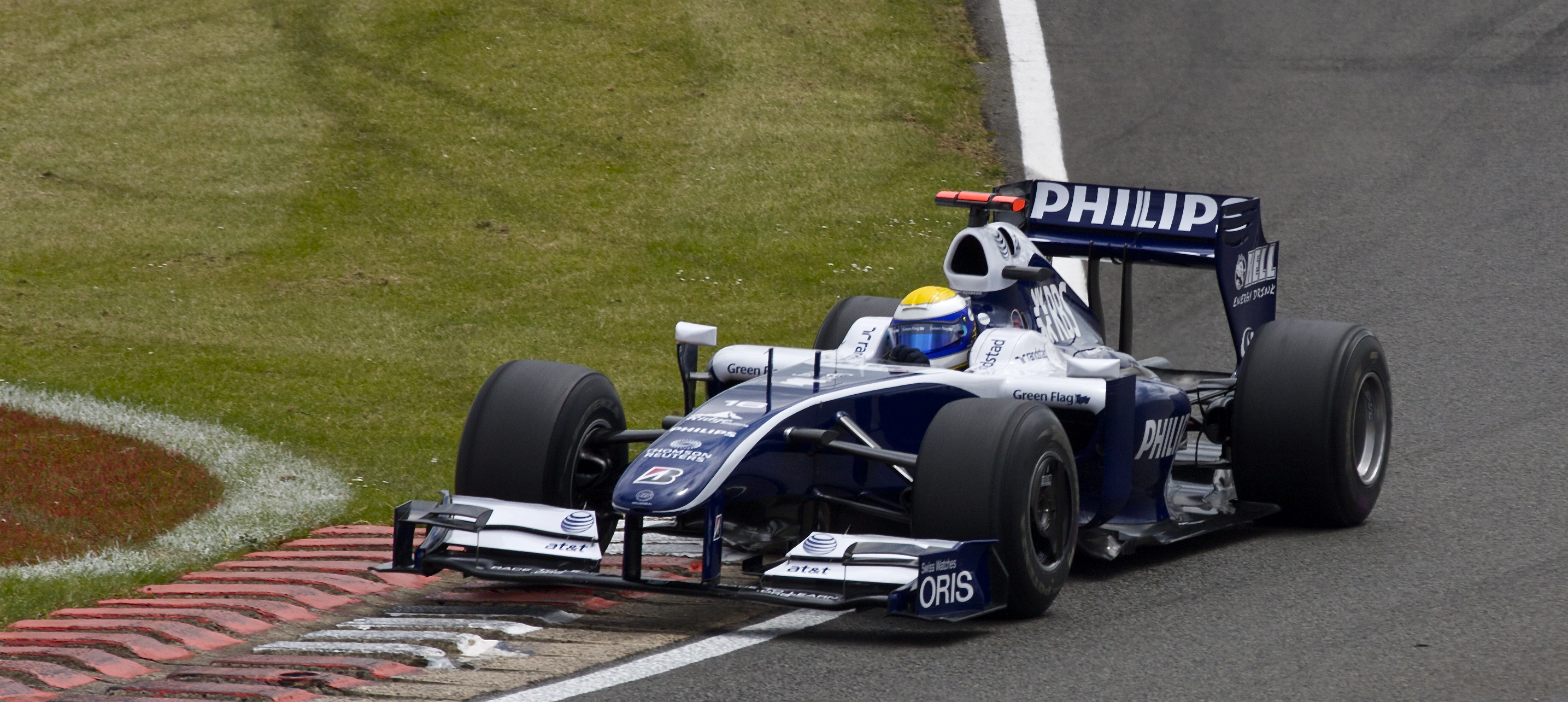 Nico Rosberg at the 2009 British Grand Prix, Silverstone, UK.